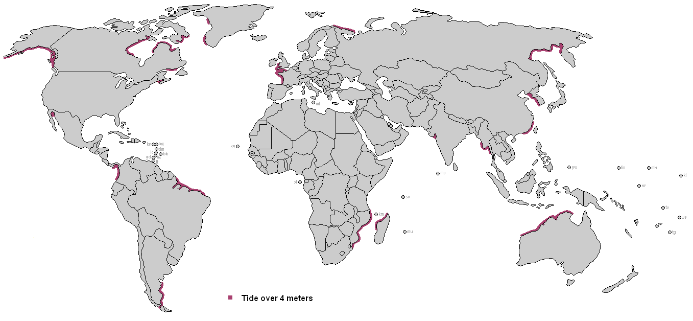 Map showing places in the world where is tide of more than 4 meters